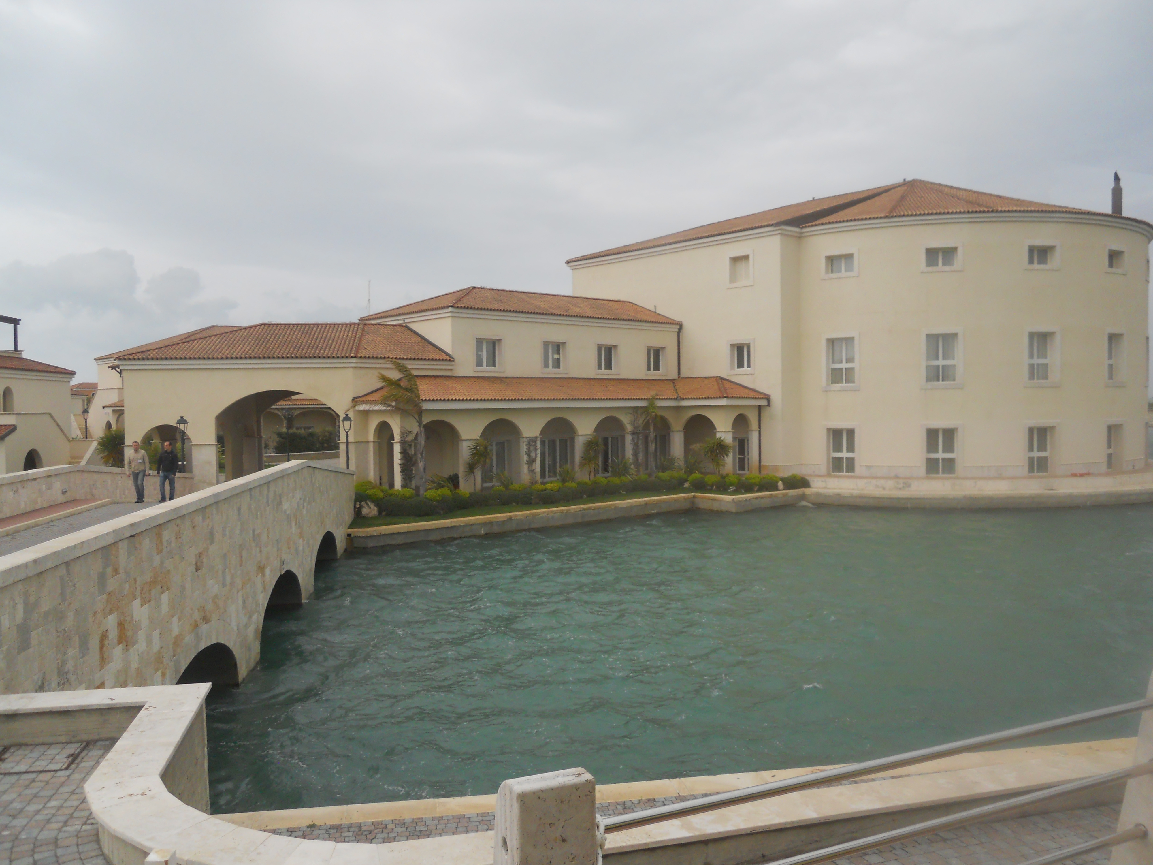 Turistic port of Policoro, Italy